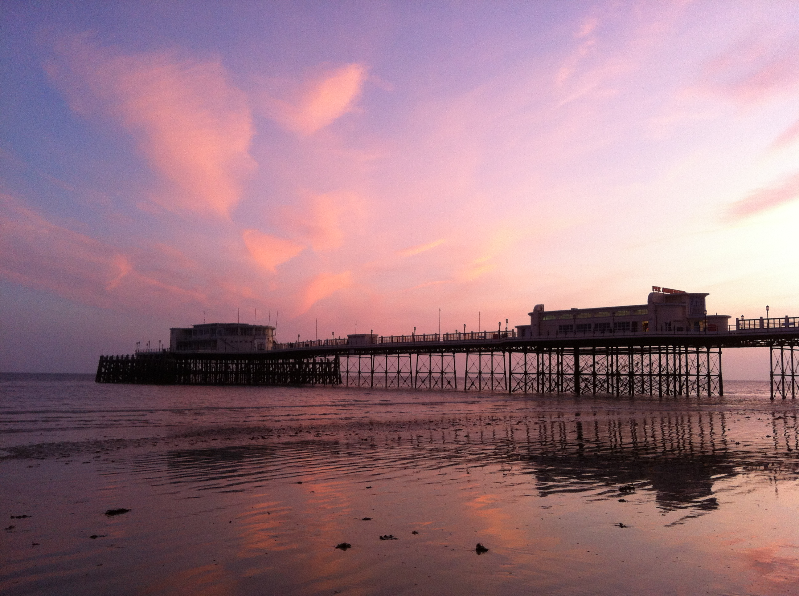 Worthing Pier, West Sussex, United Kingdom.